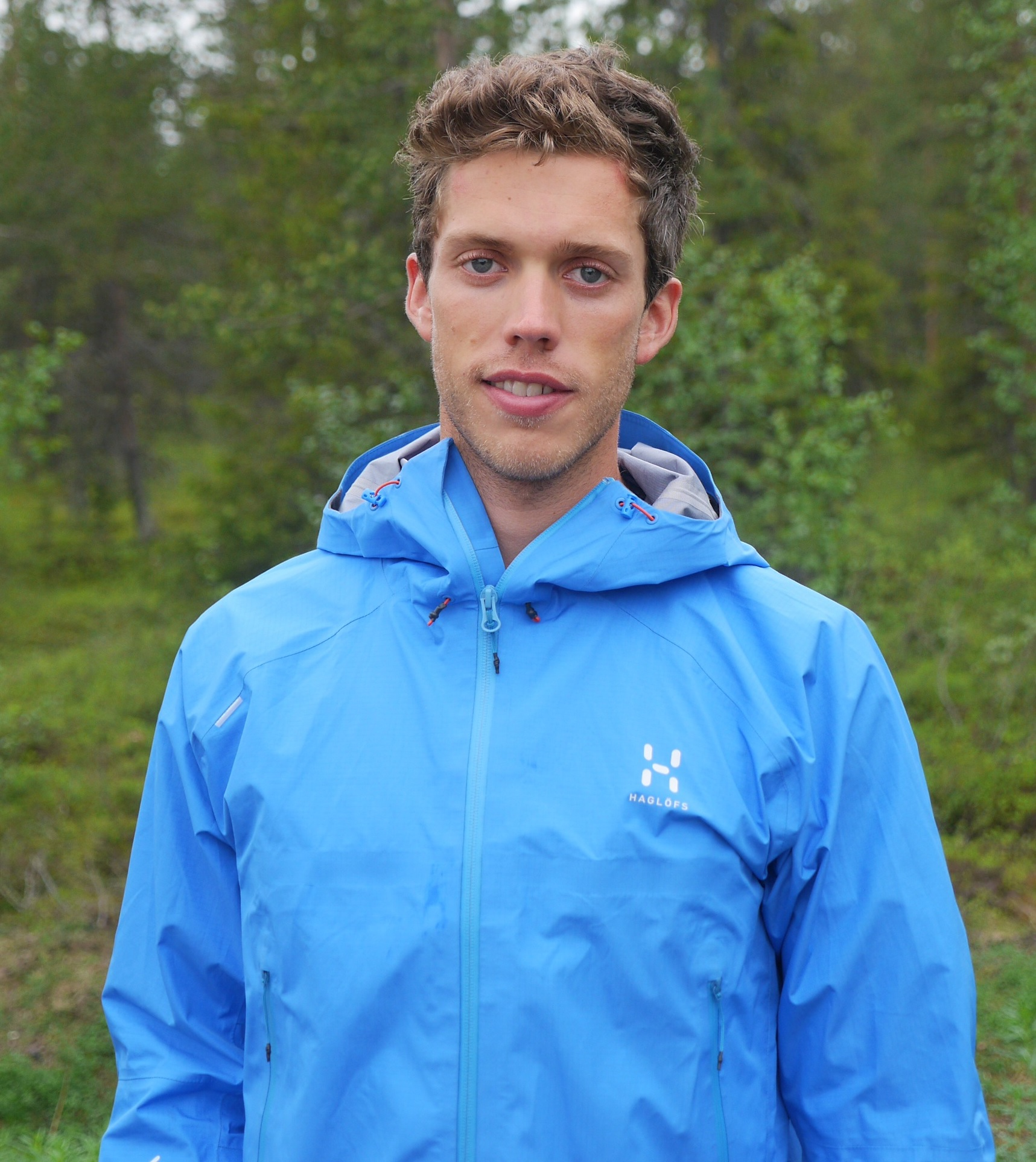 Swedish cross-country skier Marcus Hellner.